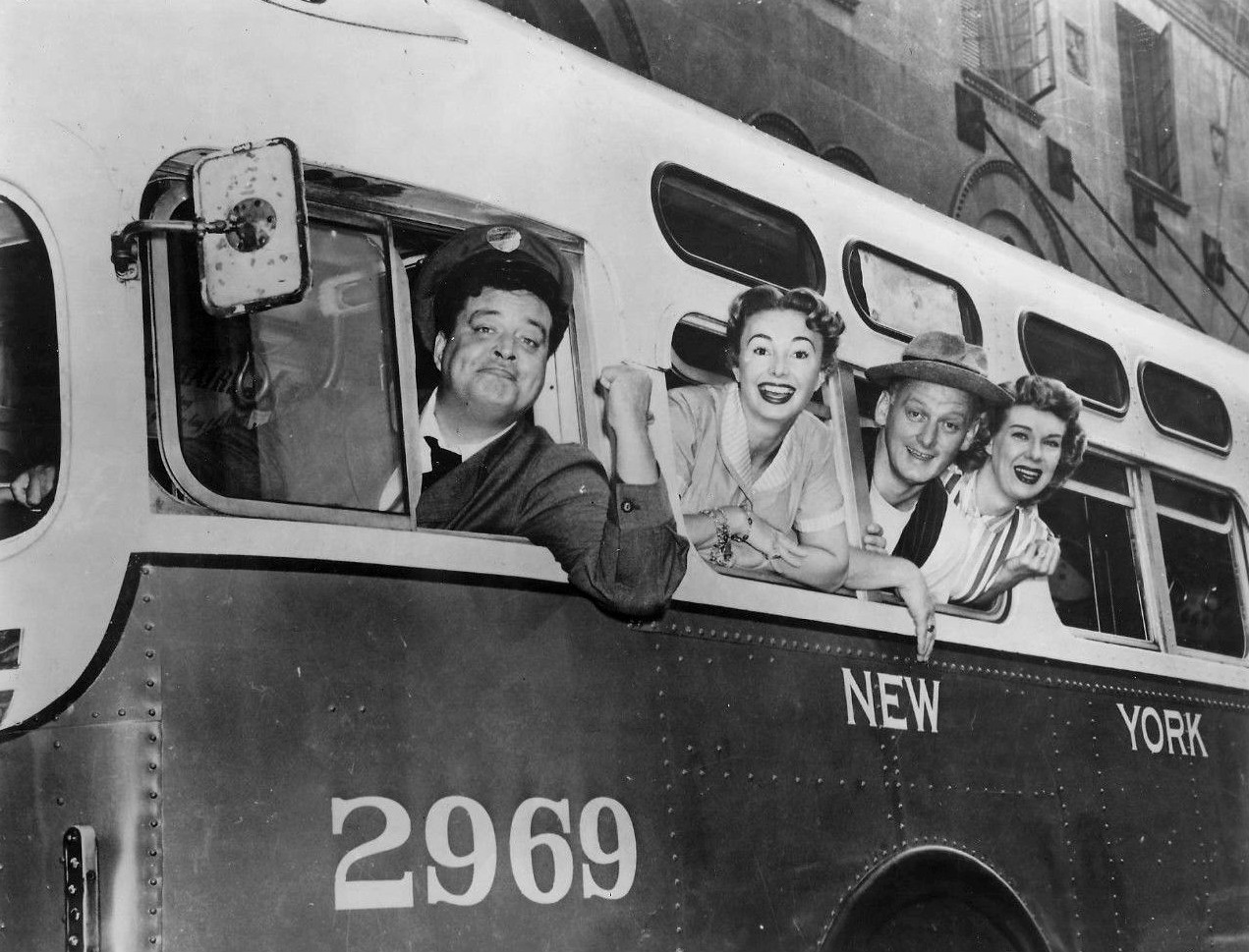 Photo of the complete cast of the television program The Honeymooners. This was the premiere of the show on CBS as it moved there from the DuMont network. From left: Jackie Gleason (Ralph Kramden), Audrey Meadows (Alice Kramden), Art Carney (Ed Norton), Joyce Randolph (Trixie Norton).